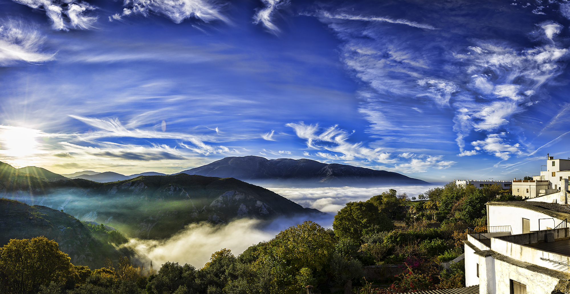 Perched in the foothills of the Sierra Nevada mountain range, Carataunas is high enough that on some occasions it sits well above the clouds during winter months. A great morning, with blue skies and sun shining - feeling somewhat better off than the town of Orgiva below, covered by a manta of thick cloud!